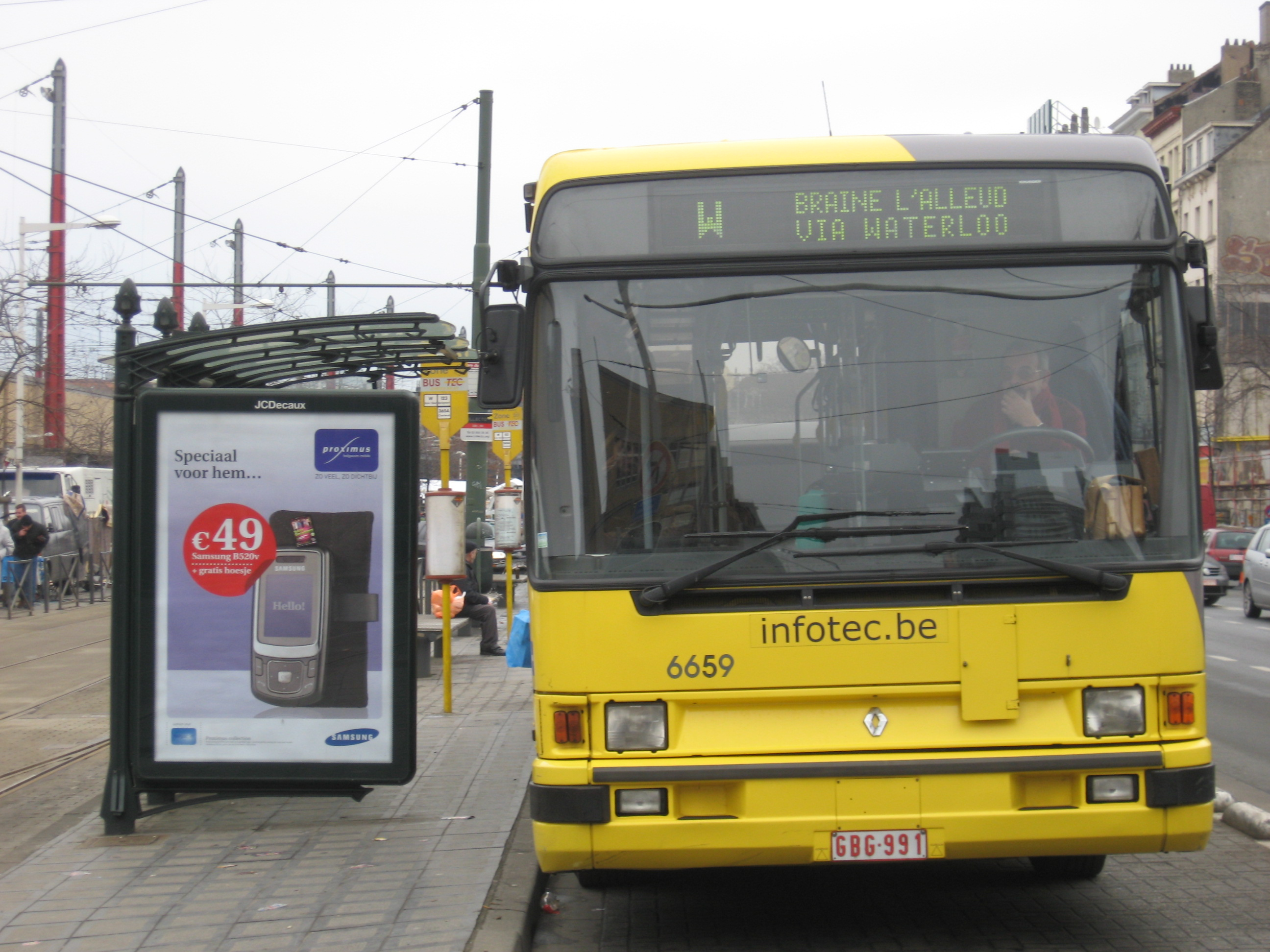 TEC bus by Brussel Midi station. Line "W" is one off the few TEC buslines in Brussels. Most off the other ex-vicinal buses (buurtspoorwegen) in the Brussels area where taken over by "De Lijn". Line "W" used to be a vicinal tram.